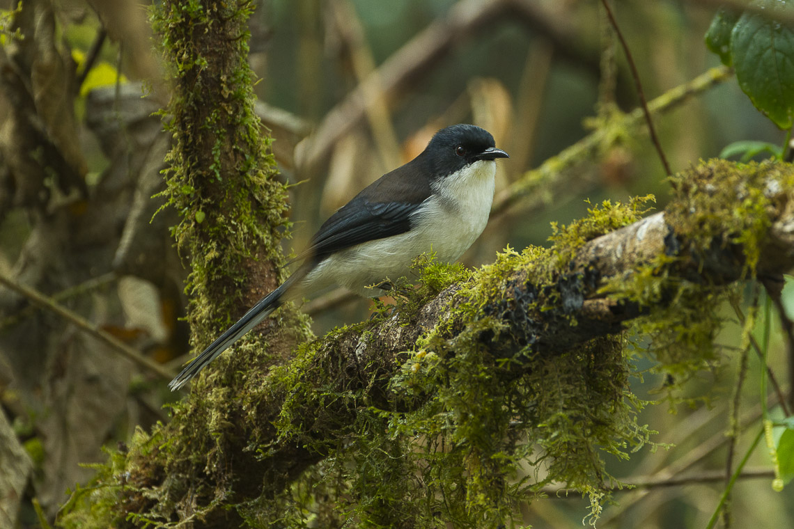 Black-backed Sibia - Chiang Mai - Thailand_IMG_5524